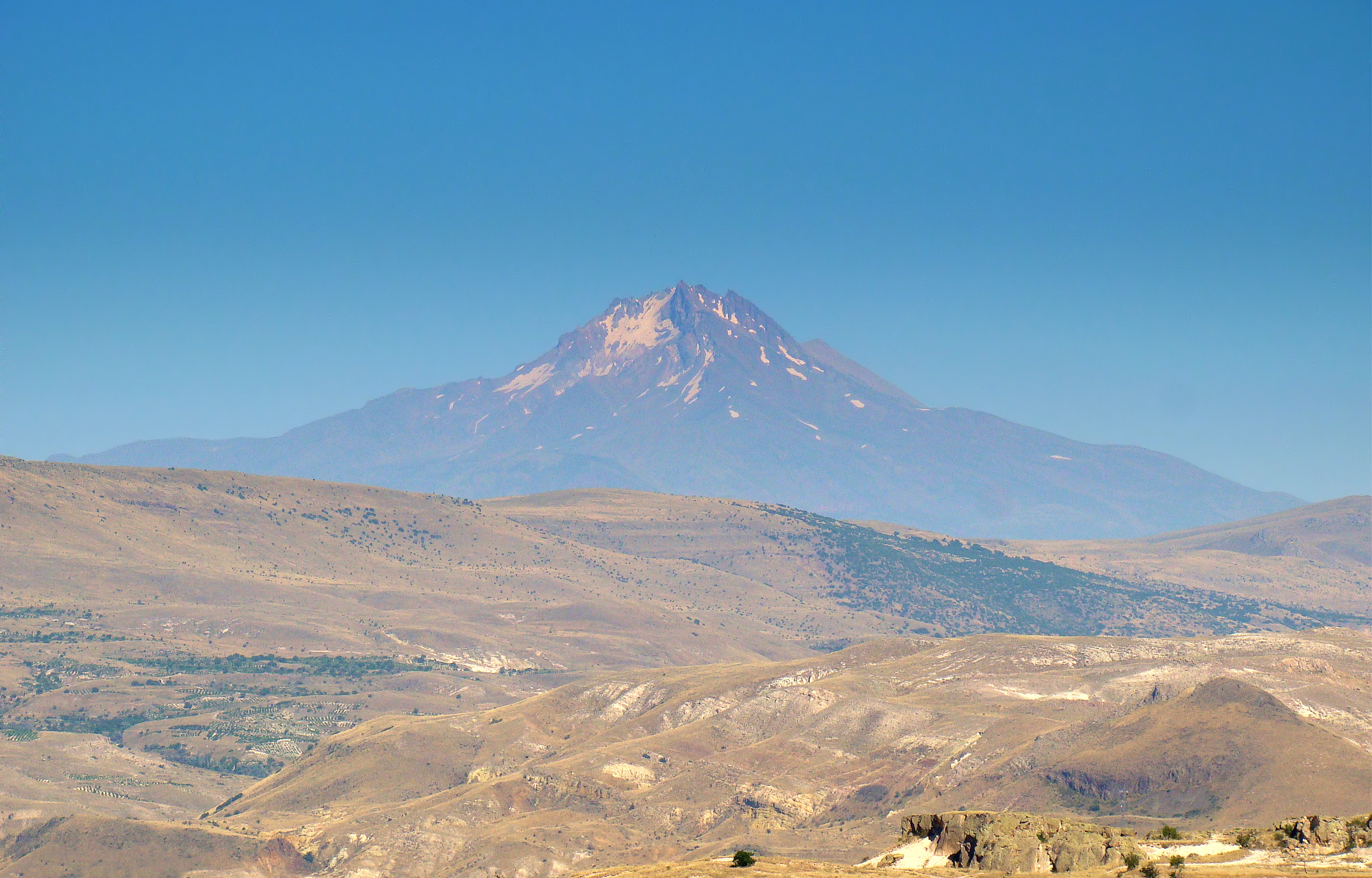 Mount Erciyes (Turkish: Erciyes Dağı) is a 3917 metres high volcano east of Cappadocia/Nevsehir province. This photo was taken from the summit of Aktepe Hill, roughly 50km away north-west of Erciyes. There is still snow in the mountain on this side, at the end of July